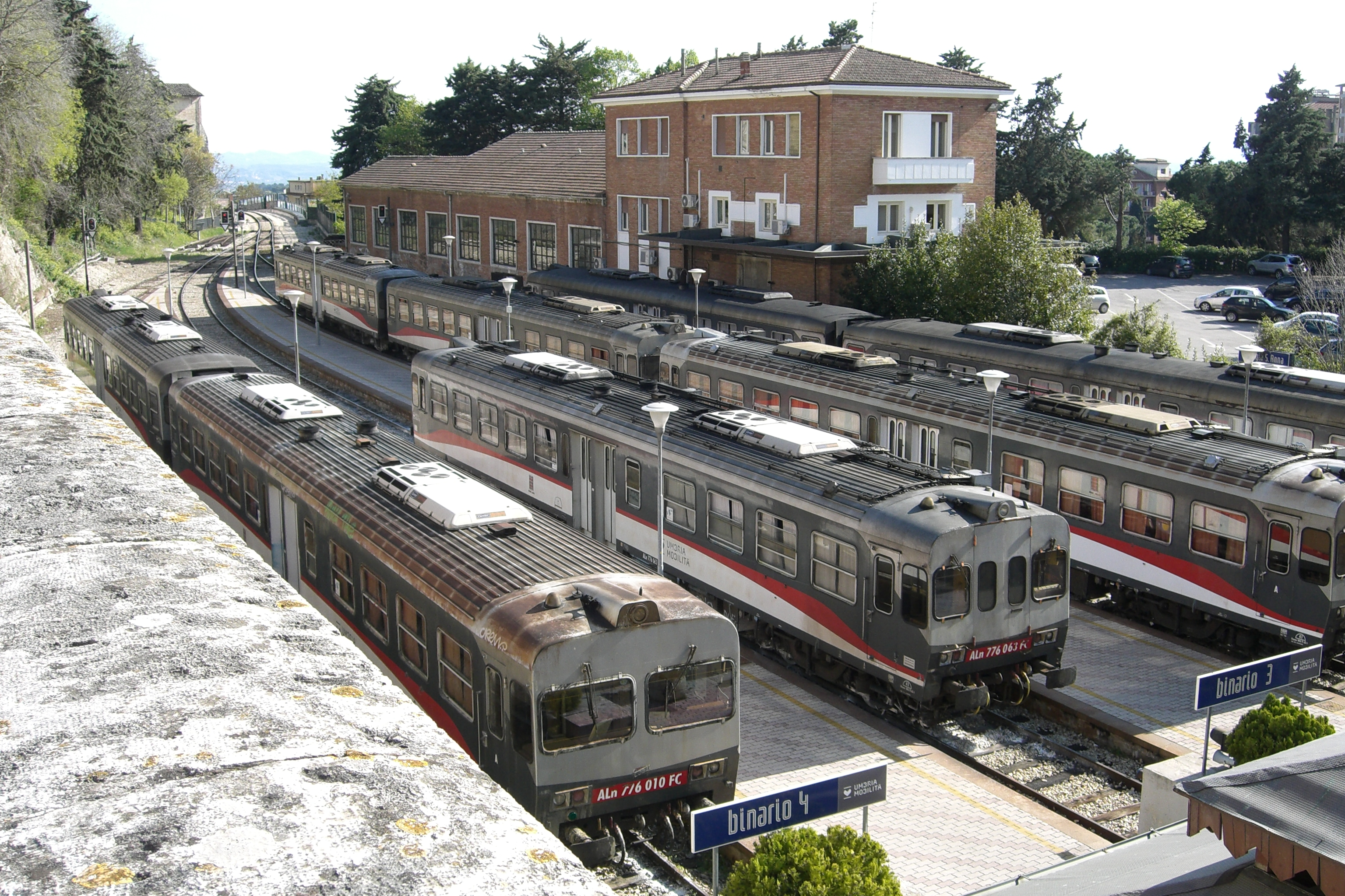 An ALn 776 control cars by Umbria Mobilità at the platforms of the Sant'Anna railway station, part of the Centrale Umbra railway and terminus of the Perugia metropolitan railway service. Perugia, 10 April 2012.